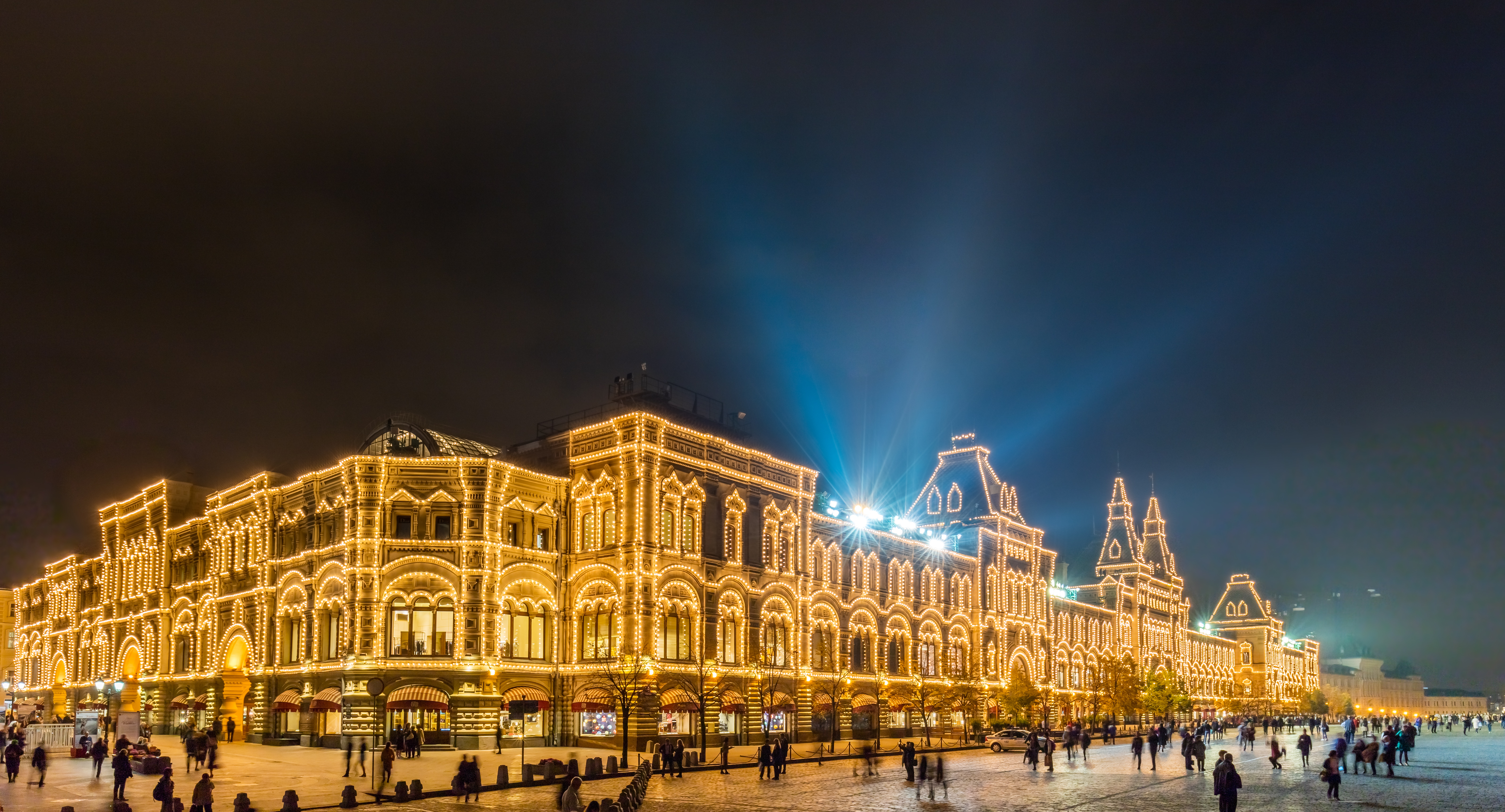 Upper Trade Rows, Moscow, Russia